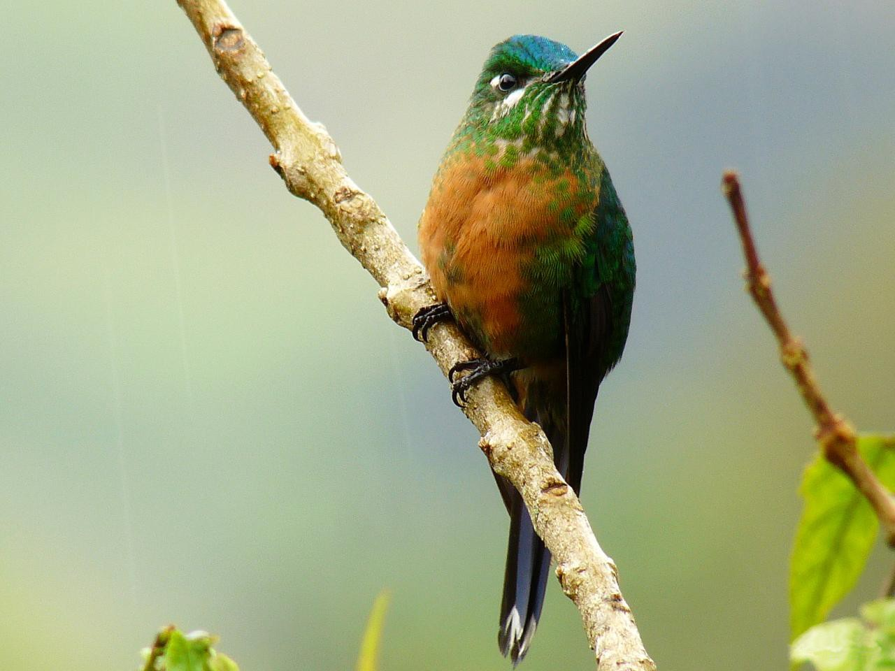 An adult female Long-tailed Sylph in Manizales, Caldas, Colombia.